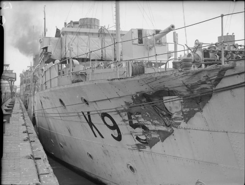 Photograph of British corvette HMS Dianthus docked at Liverpool showing damage to bow plating sustained when she rammed and sank a German U-boat.